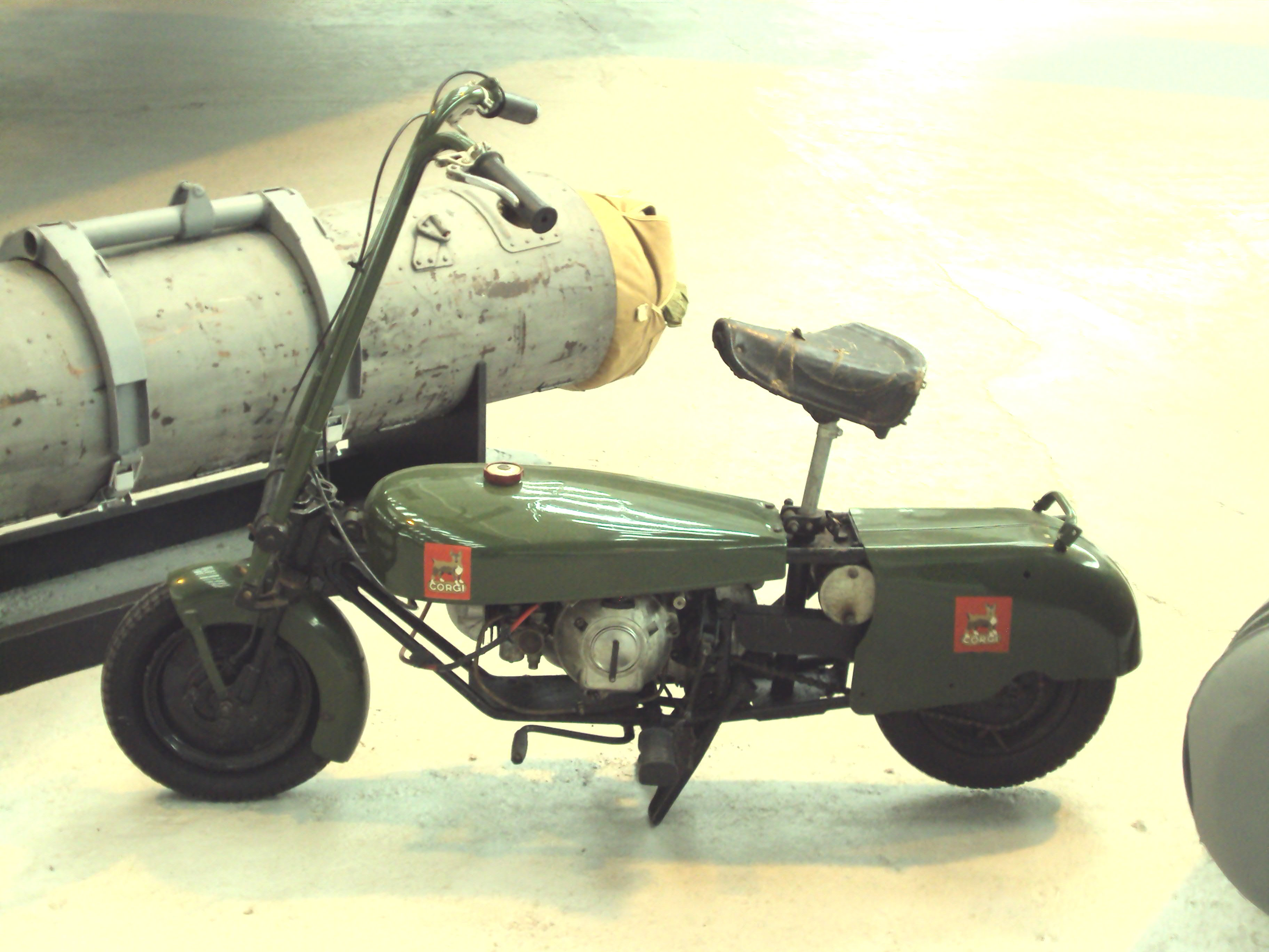 Photo of parachute-dropped military scooter taken at the RAF Museum Cosford, Shropshire, England.